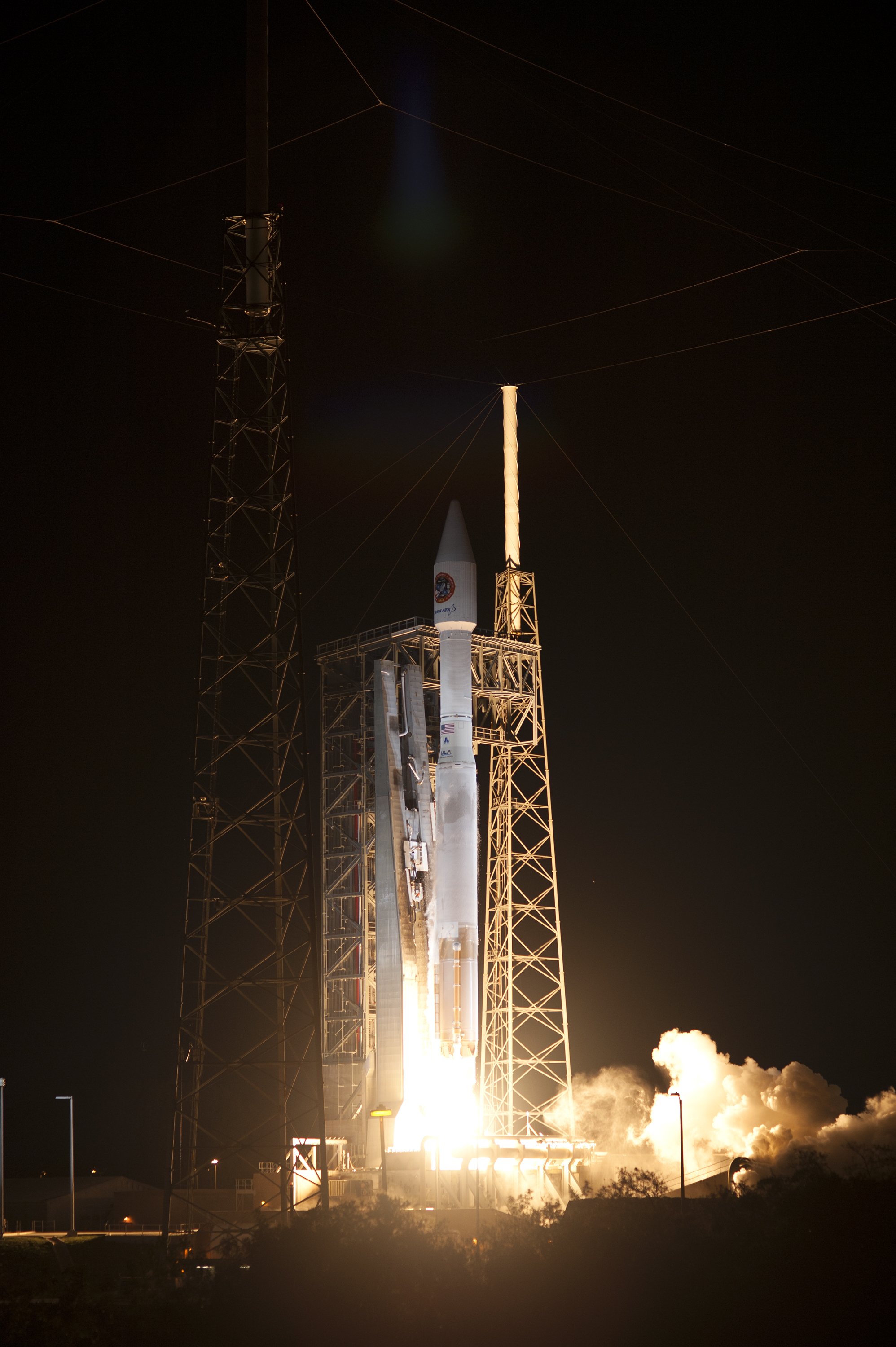 Cape Canaveral Air Force Station carrying an Orbital ATK Cygnus resupply spacecraft on a commercial resupply services mission to the International Space Station. Liftoff was at 11:05 p.m. EDT. Cygnus will deliver more the second generation of a portable onboard printer to demonstrate 3-D printing, an instrument for first space-based observations of the chemical composition of meteors entering Earth’s atmosphere and an experiment to study how fires burn in microgravity.